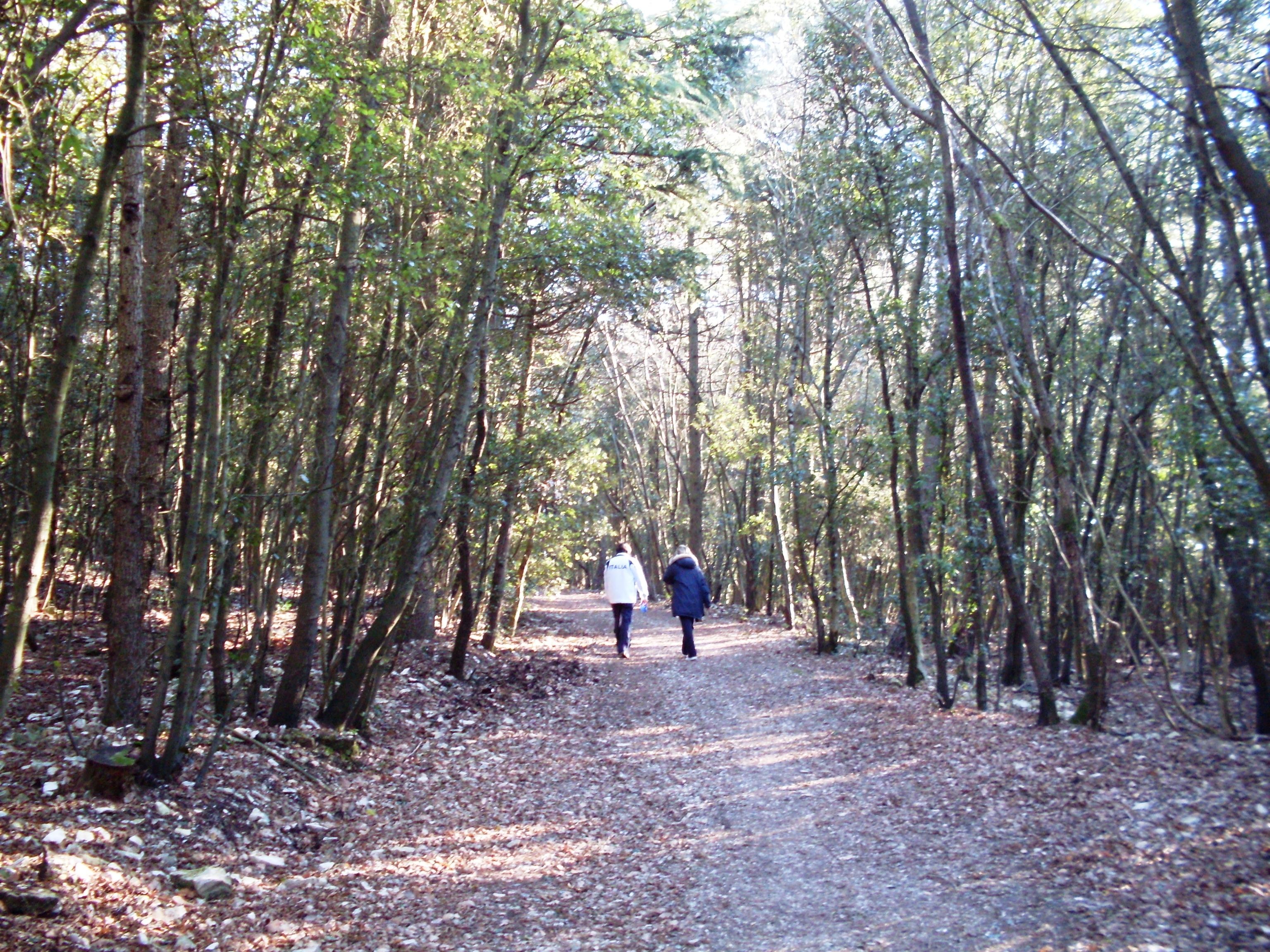 Italy Ancona Mount Conero - Tourists in the wood